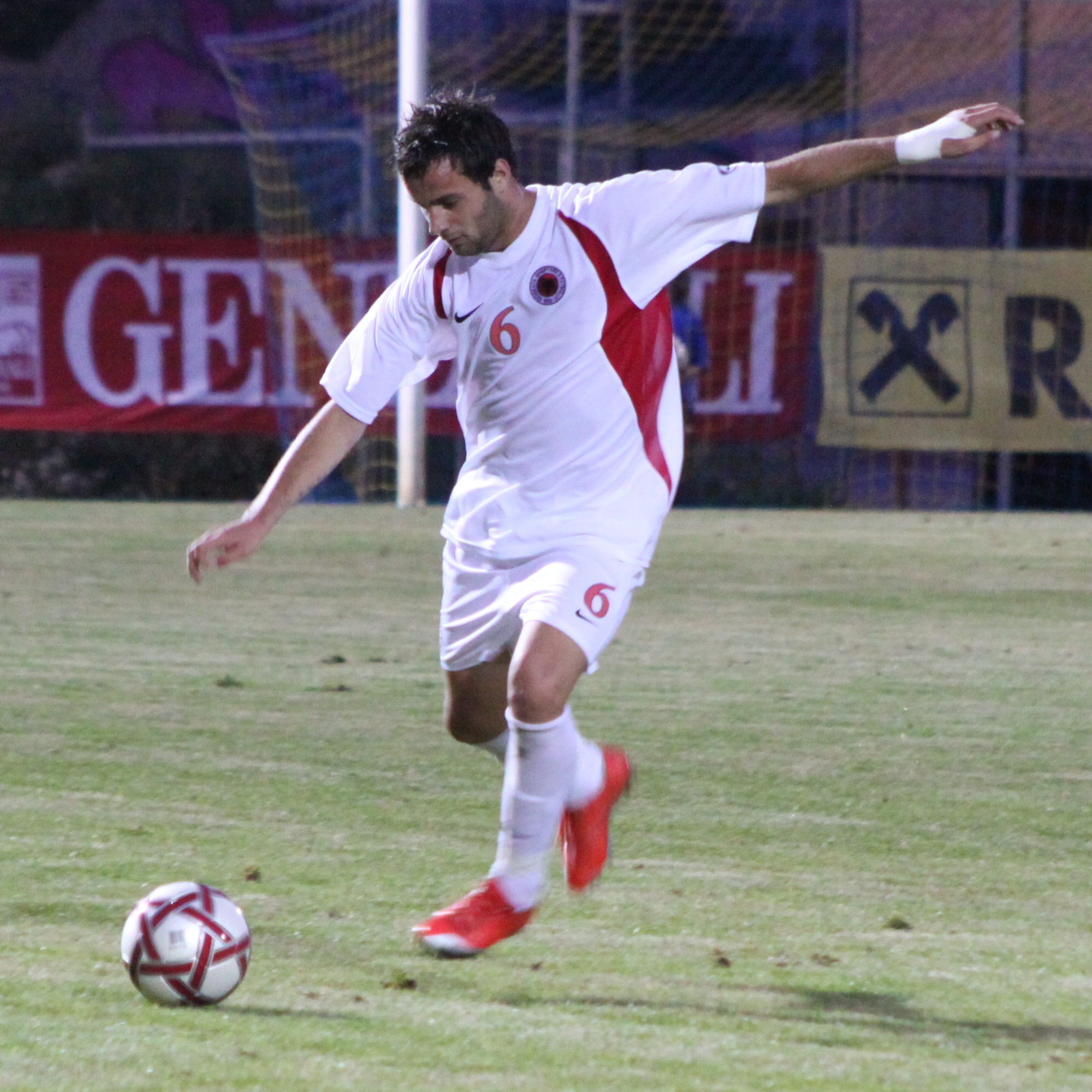 Polizoi Arbëri (KS Bylis Ballsh) - Albania national under-21 football team (2)